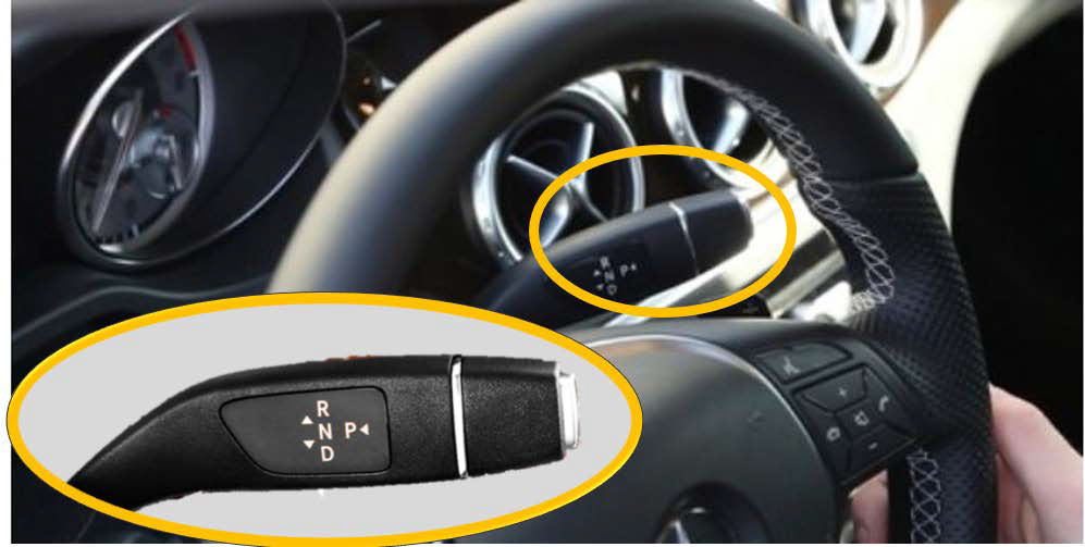 Photo of the steering wheel of a 2011 Mercedes-Benz ML350 with the shifter highlighted and insetted, taken by staff of the U.S. National Transportation Safety Board for its investigation of the 2015 Valhalla train crash in Westchester County, New York. It had been theorized that the driver of a similar vehicle had gotten confused about the shifter's operation, resulting in her driving forward into the path of a Metro-North Harlem Line train at a grade crossing, rather than reversing out of the way.